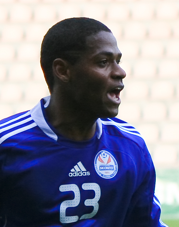 Nathan Junior de Carvalho, Brazilian footballer